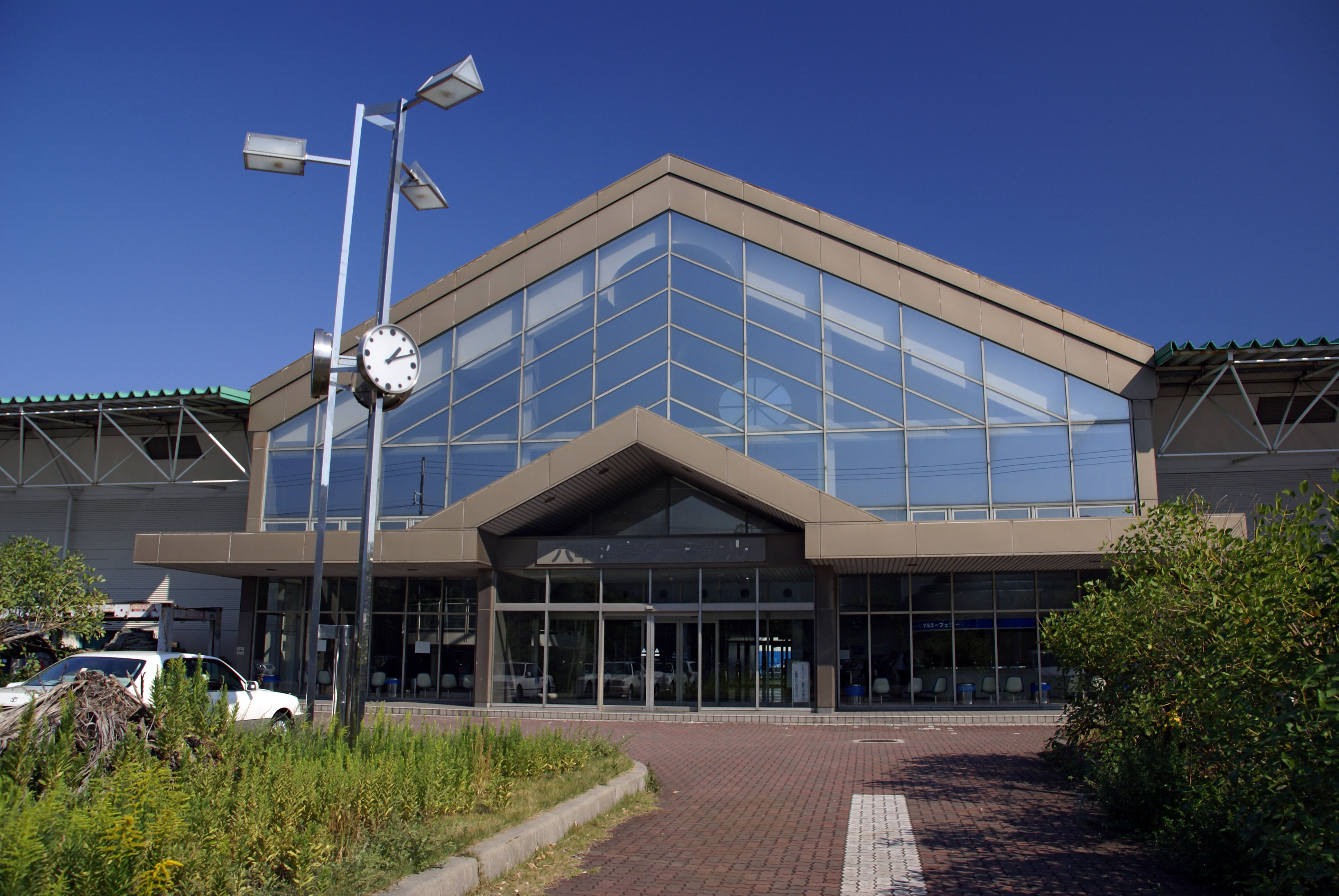 Rokko Passenger Ship Terminal of the Kobe harbor ( Kobe, Hyogo, Japan )